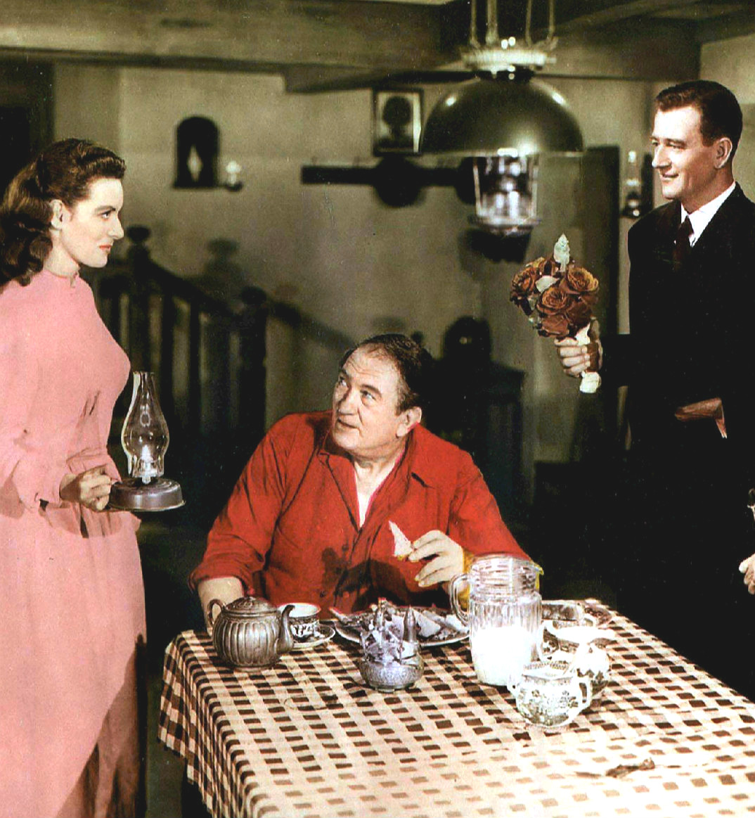 Lobby card for the film The Quiet Man. Pictured are Maureen O’Hara, Victor McLaglen, and John Wayne.